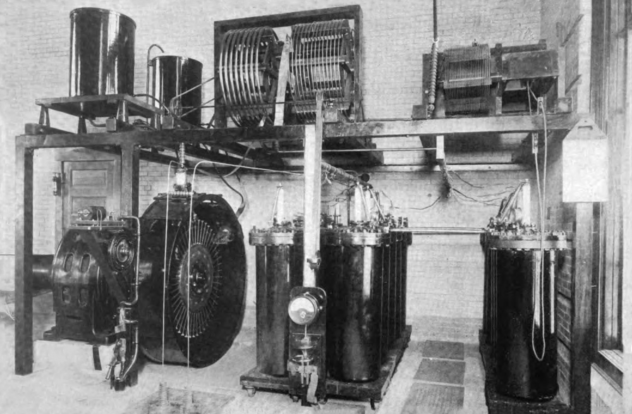 The 100 kW spark-gap transmitter at the US Navy's first radio communication station, call sign NAA, constructed in 1913 at Arlington, Virginia. It was a rotary spark gap set invented by Reginald Fessenden and built by his firm National Electric Signaling Co. (NESCO) and was used until 1925. It transmitted by radiotelegraphy on 113 kHz (2650 meters) at ranges exceeding 6000 miles. It was used to communicate with Europe and Navy radio stations on the East and West coasts, and in the US possessions of the Canal Zone (Panama) and Puerto Rico. It also broadcast the first US radio time signal at noon and 10 o'clock each night, provided by the nearby US Naval Observatory, which was received all over the US and used to set clocks in factories, offices, and jeweler's stores. It consisted of a 200 HP, 300 RPM, 220V, 3 phase synchronous motor (not visible), driving by belt a 1250 RPM, 500 Hz alternator (far left), whose output was increased to high voltage with a step-up transformer which charged a bank of high pressure air capacitors (lower right). The motor also turned the water-cooled synchronous rotary spark gap (left) which produced 500 sparks per second. This audio frequency cut through interference better. The spark gap discharged the capacitors through the primary of the oscillation transformer (top center), creating radio frequency damped waves. The secondary of the oscillation transformer was connected to a huge multiwire flattop wire antenna supported on one 600 ft and two 450 ft masts, through antenna loading coils (top right) which matched the impedance of the antenna to the transmitter. Information from Kreisinger, Robert (1980). ""NAA" - Arlington". Sparks Journal 3 (3): 1, 6-10. Society of Wireless Pioneers, Inc.. Retrieved on February 3, 2015..